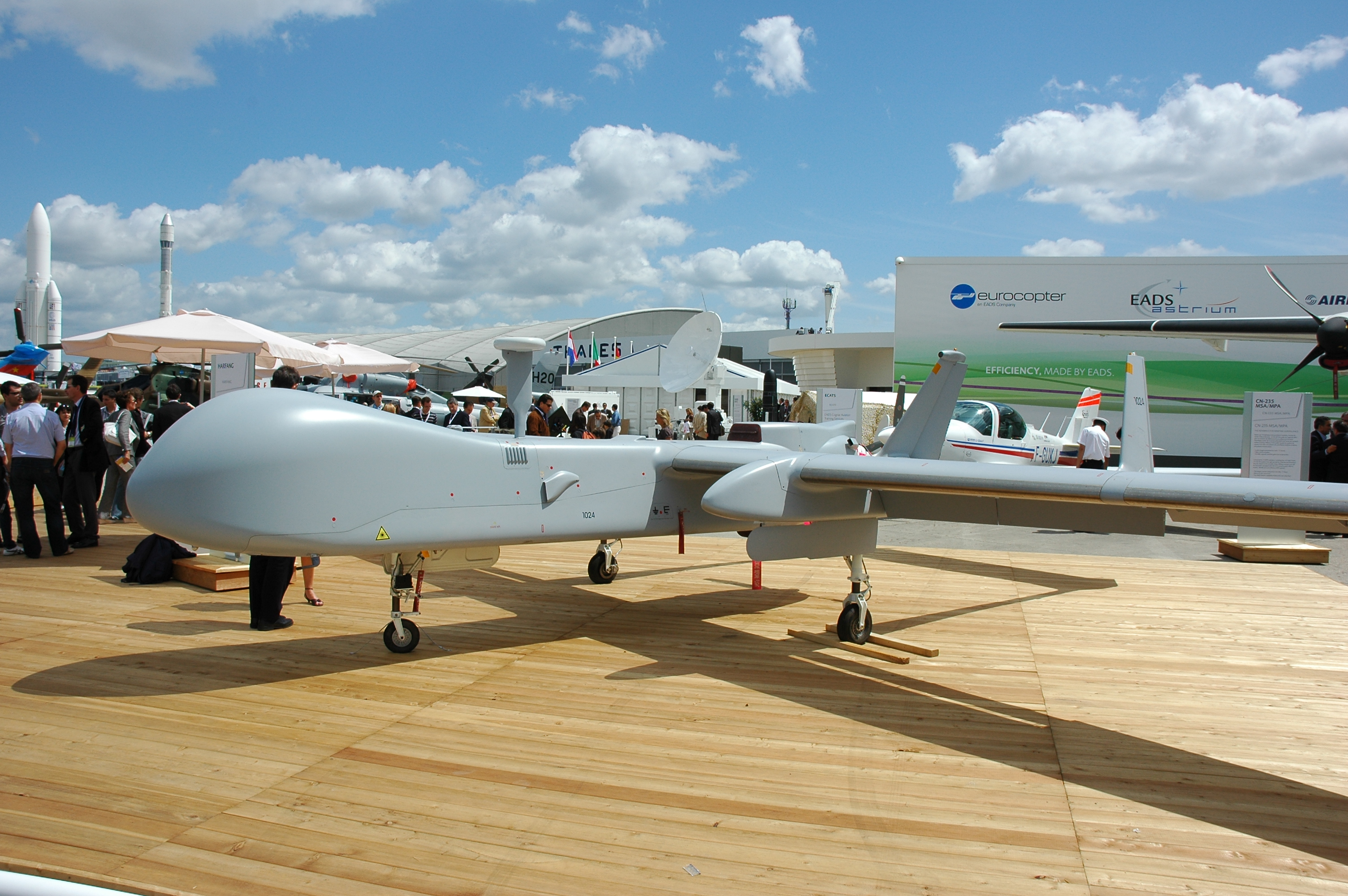 UAV HARFANG